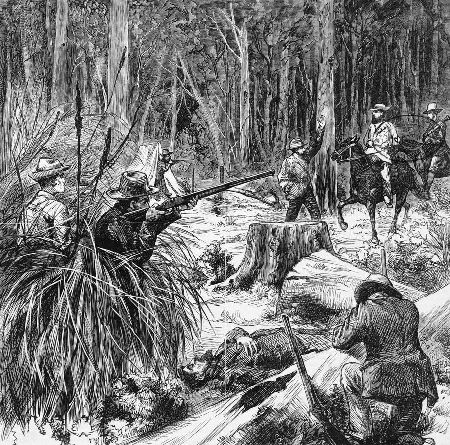 Members of the Kelly gang open fire on police at Stringybark Creek, Victoria, Australia.